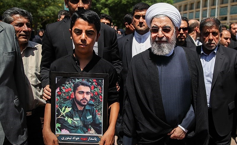 State funeral of 2017 Tehran attacks victims in behind of the Parliament of Iran